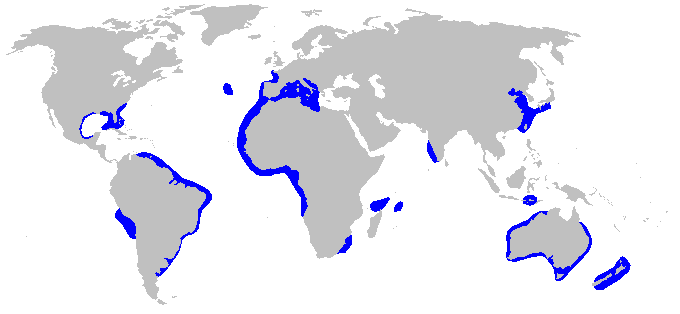 Distribution map for Heptranchias perlo